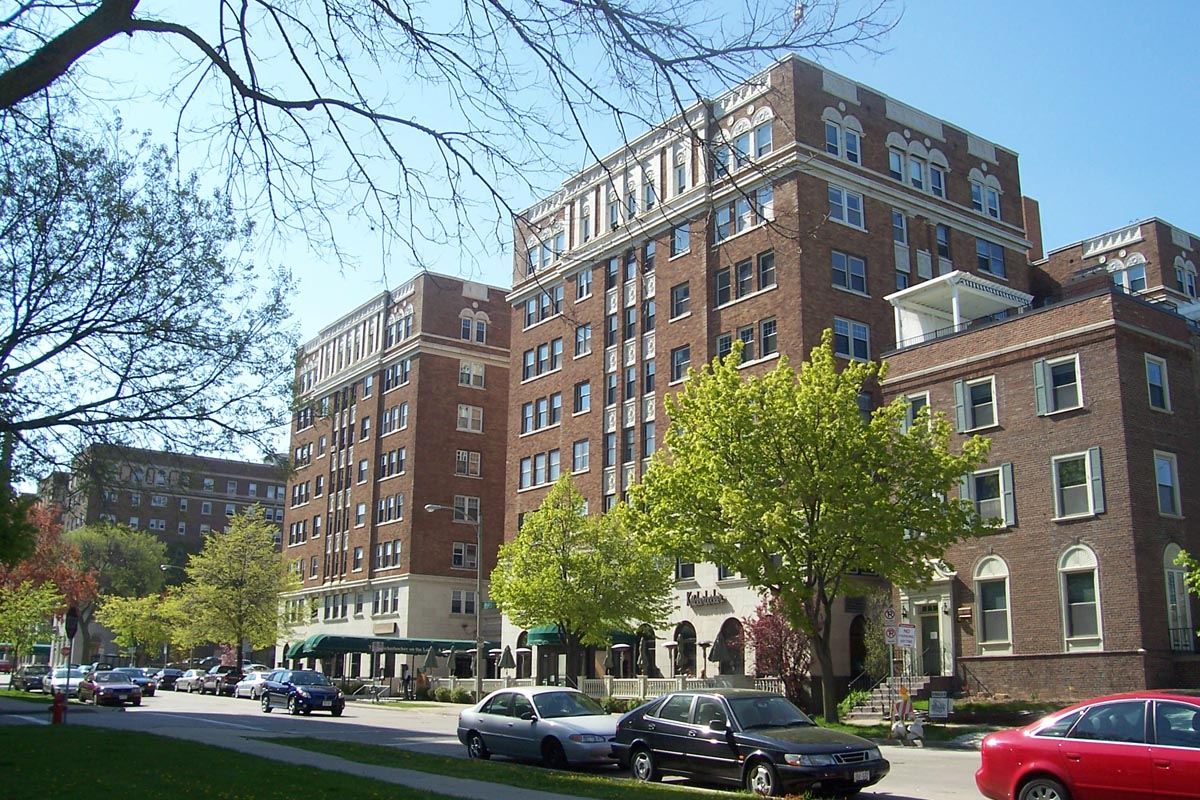 Copyright © 2006 Sulfur The Knickerbocker Hotel is a historic building located in the Yankee Hill neighborhood of downtown Milwaukee, Wisconsin.